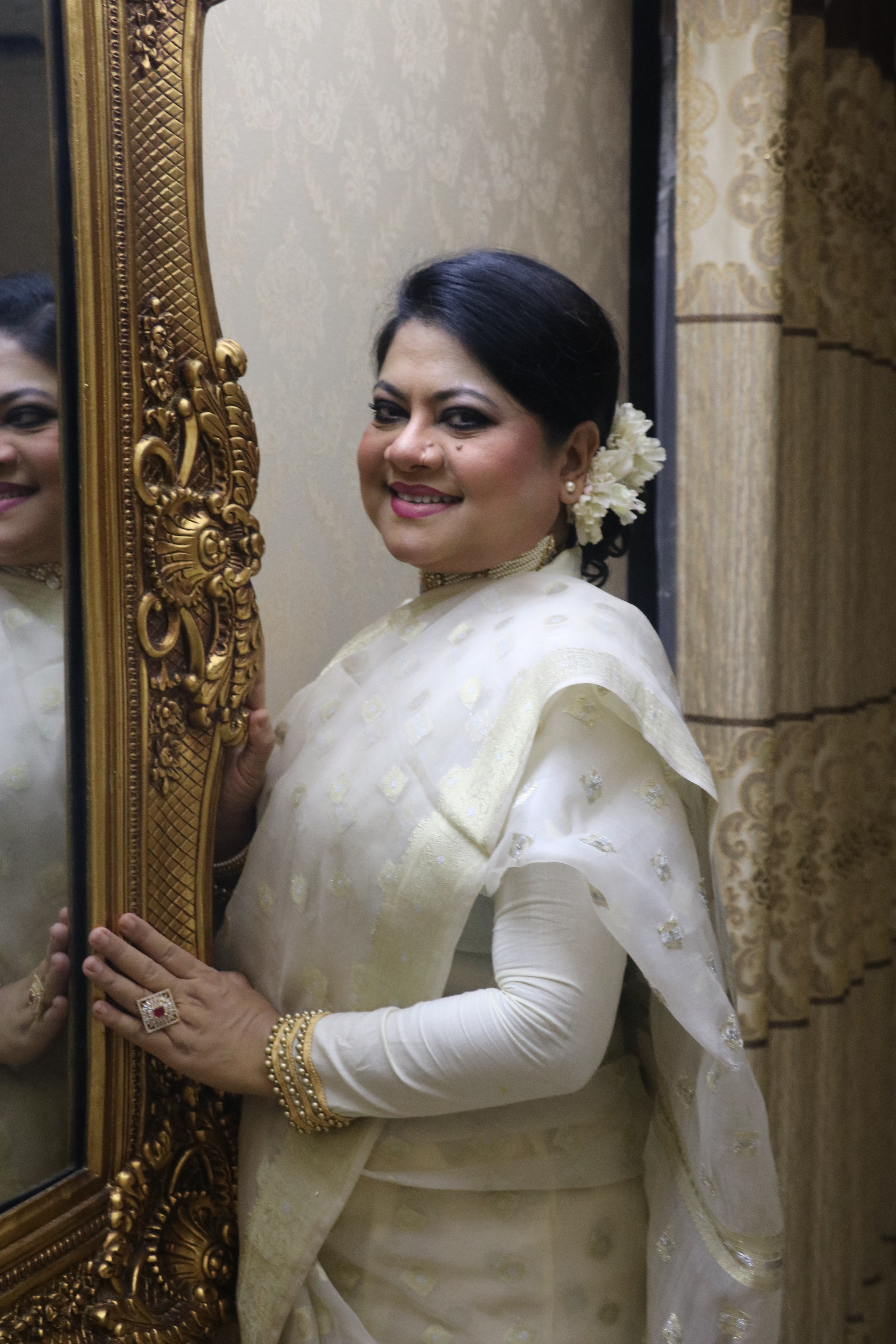 Kanak Chapa in 2019